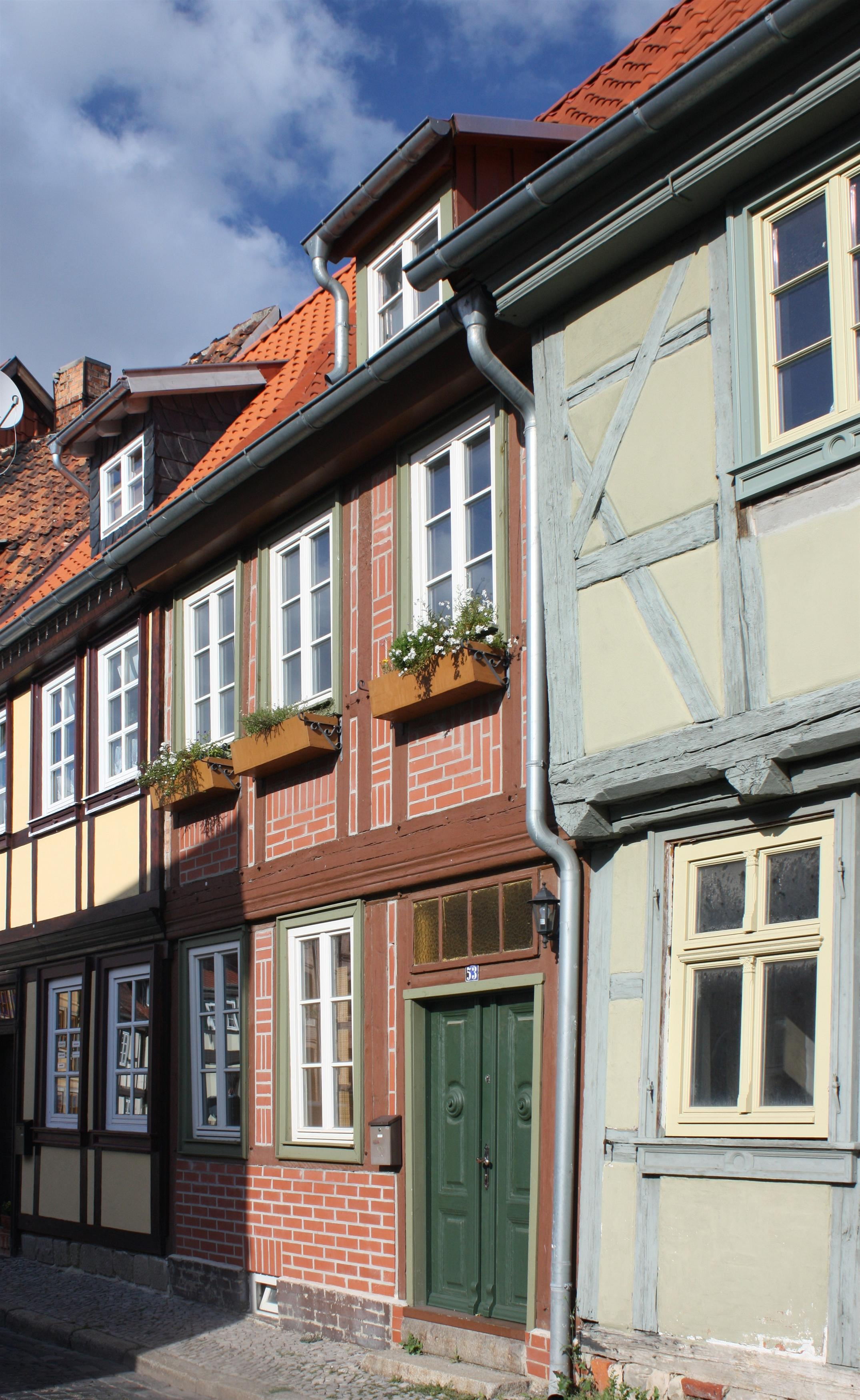 This is a photograph of an architectural monument.It is on the list of cultural monuments of Quedlinburg Augustinern 53 in Quedlinburg